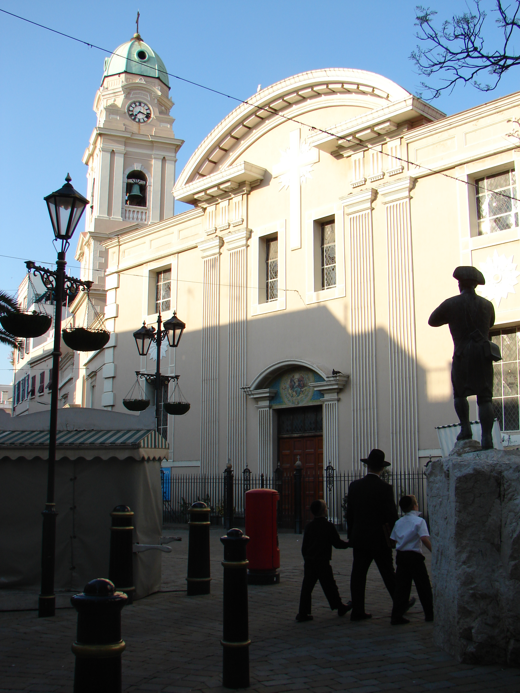 A photograph of the Cathedral of St. Mary the Crowned taken by myself on the 28th April 2007 in Gibraltar